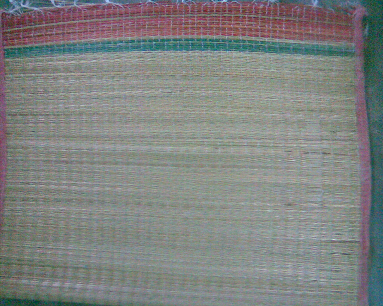 Reed mat it is indian economical and healthy bed